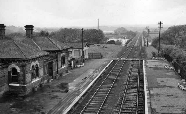 Butterley Station (remains). View westward, towards Ambergate, also Ripley; ex-Midland, Ambergate, and Derby via Ripley - Pye Bridge lines. This station, which is now the headquarters of the heritage Midland Railway (Butterley), lost its regular passenger services first on 1/6/30 from Derby via Ripley, then on 16/6/47 from Ambergate and Pye Bridge. Goods traffic lasted until 1968 - and evidently the station was still being cared for in 1963. After eight years of restoration work, passenger trains were restored along the line to Swanwick on 22/8/81 and the Centre is now a great attraction